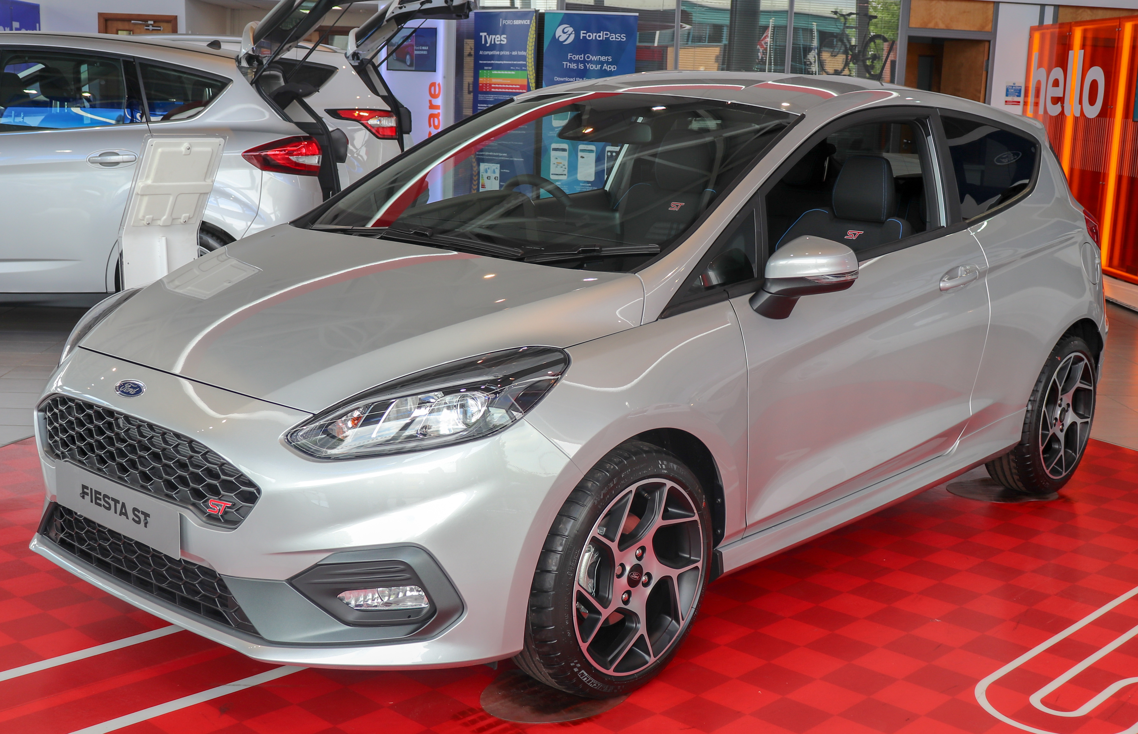 2018 Ford Fiesta ST 1.5 Front Taken in Leamington Spa